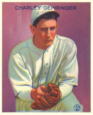 1933 Goudey baseball card of Charley Gehringer of the Detroit Tigers #222. PD-not-renewed.